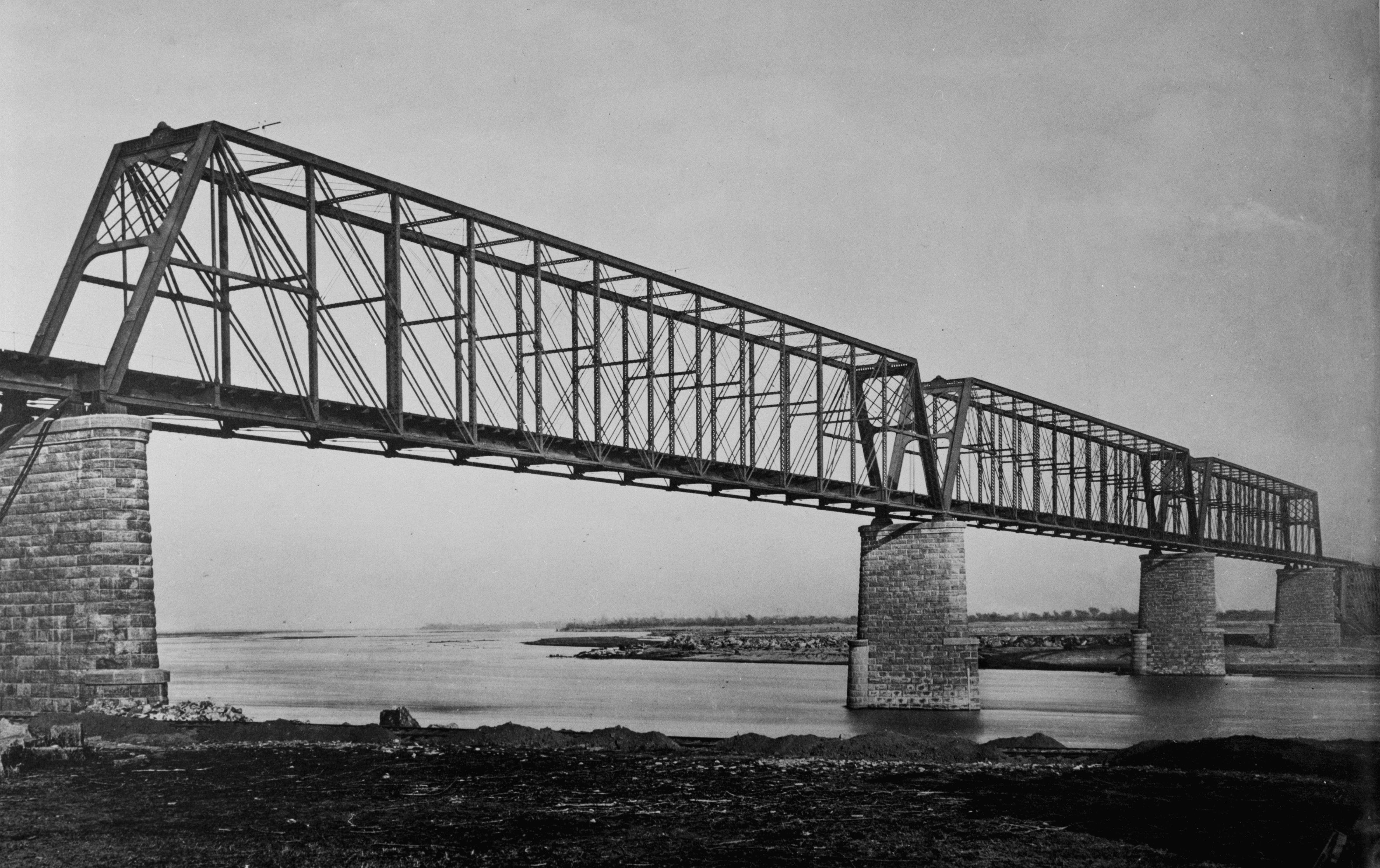 Photocopy from George S. Morison's The Blair Crossing Bridge, 1886. Photographer unknown, circa 1883. SOUTH WEB AND WEST PORTAL OF BRIDGE - Blair Crossing Bridge, Spanning Missouri River, Blair, Washington County, NE